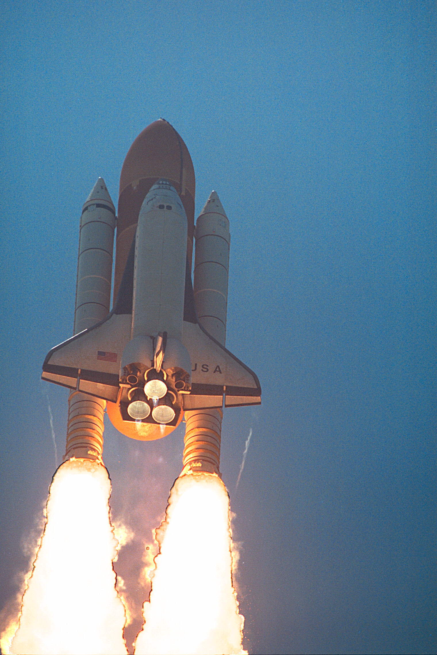 The Space Shuttle Columbia soars from Launch Pad 39A at 2:02 p.m. EDT July 1 to begin the 16-day STS-94 Microgravity Science Laboratory-1 (MSL-1) mission. The launch window was opened 47 minutes earlier than the originally scheduled time of 2:37 p.m. to improve the opportunity to lift off before Florida summer rain showers reached the space center. The crew members are Mission Commander James D. Halsell Jr.; Pilot Susan L. Still; Payload Commander Janice Voss; Mission Specialists Michael L.Gernhardt and Donald A. Thomas; and Payload Specialists Roger K. Crouch and Gregory T. Linteris. During the space flight, the MSL-1 will be used to test some of the hardware, facilities and procedures that are planned for use on the International Space Station while the flight crew conducts combustion, protein crystal growth and materials processing experiments. Also onboard is the Hitchhiker Cryogenic Flexible Diode (CRYOFD) experiment payload, which is attached to the right side of Columbia’s payload bay. These payloads had previously flown on the STS-83 mission in April, which was cut short after nearly four days because of indications of a faulty fuel cell. STS-94 is a reflight of that mission